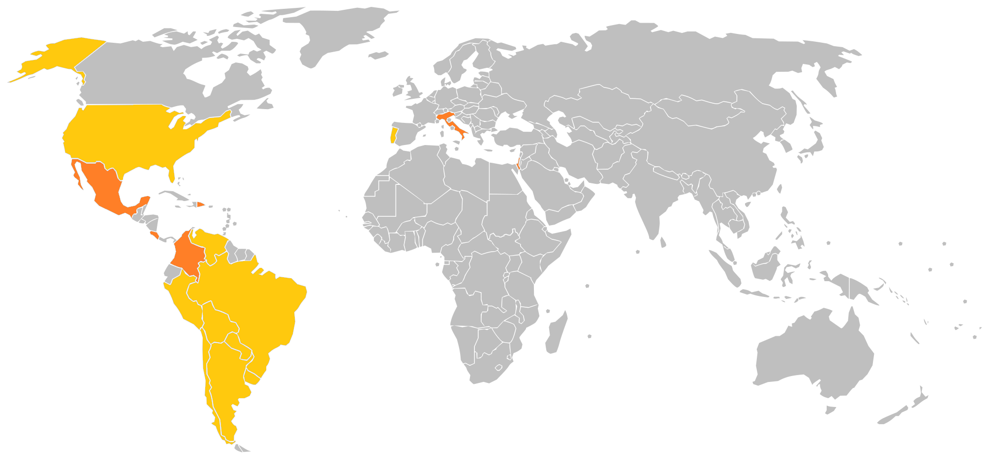 Map of Havanna's stores in 2018 according with Havanna and others sources [4], [5], [6]. In yellow, stores in countries where are currently operating, in orange stores where the stores are closed.